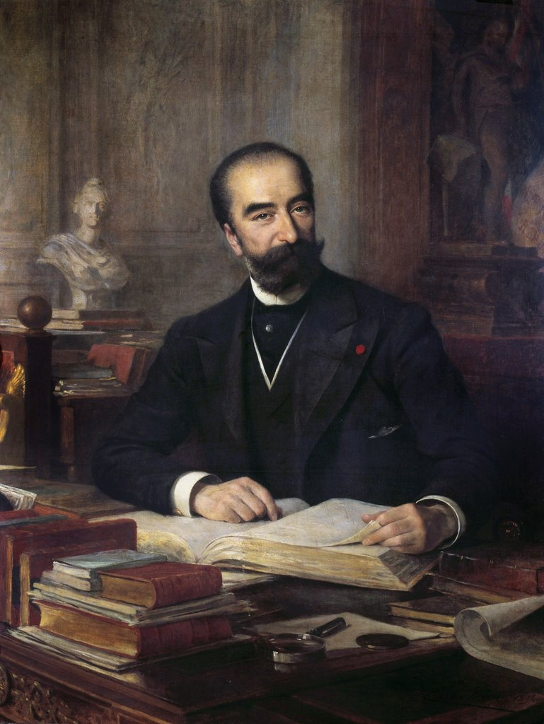 Portrait of French president Marie François Sadi Carnot (1837-1894)